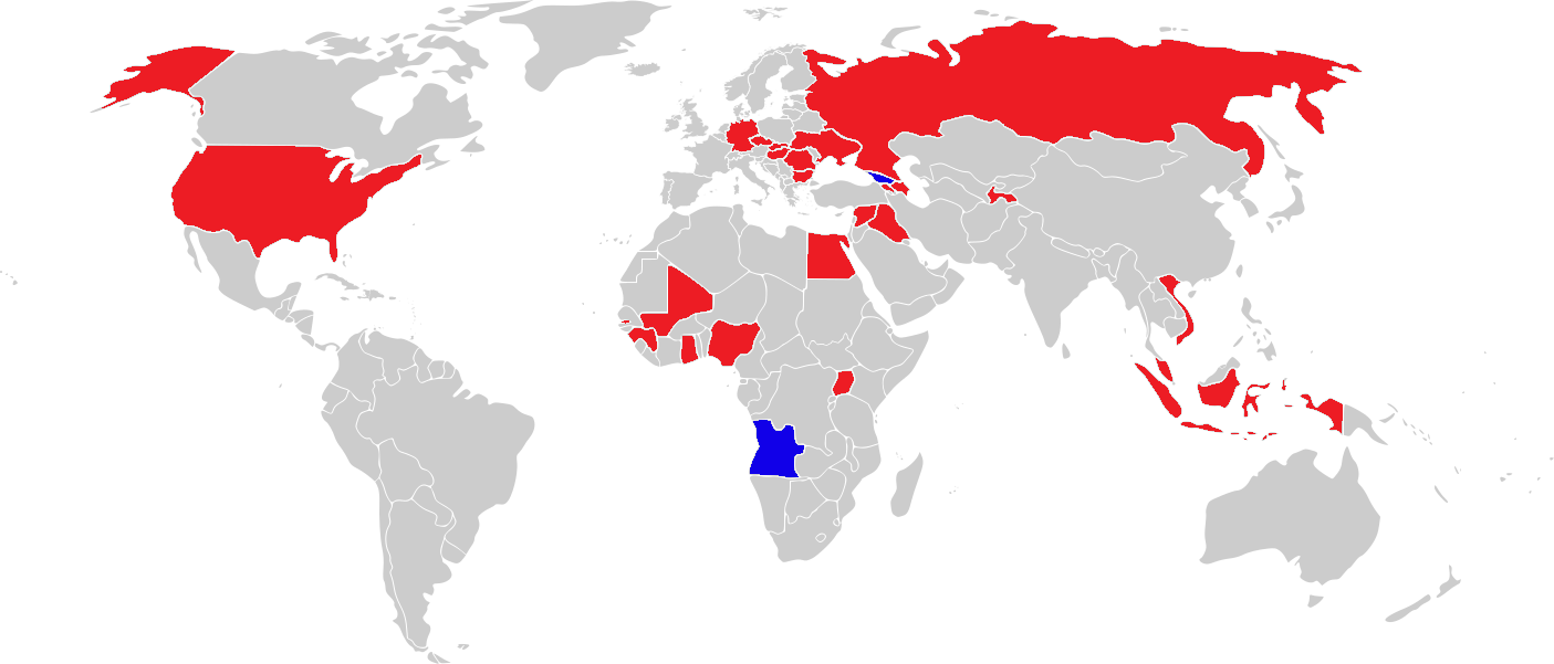 Map of current and former military operators of L-29 Dolphin